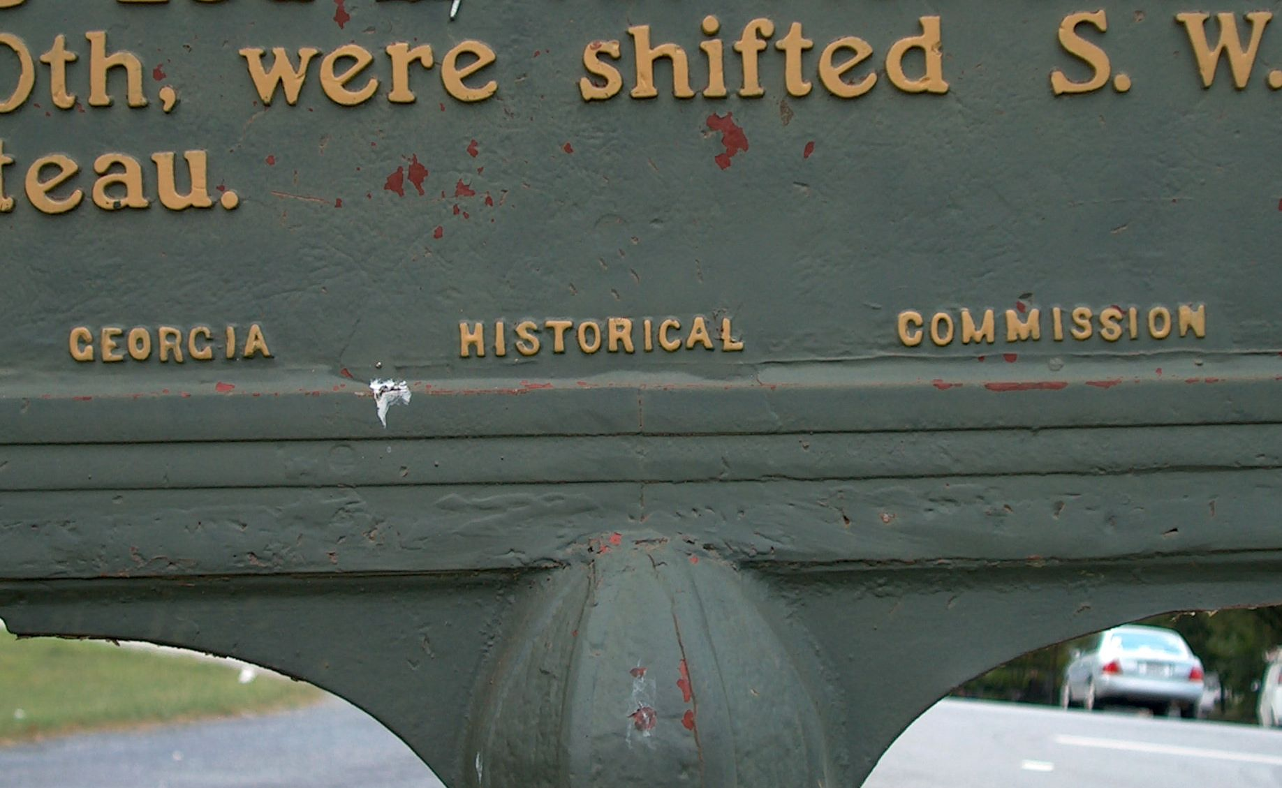 "Georgia Historical Commission" stamped on one of old Georgia markers who later in control of Georgia Historical Society taken by Cculber007 on August 8, 2006